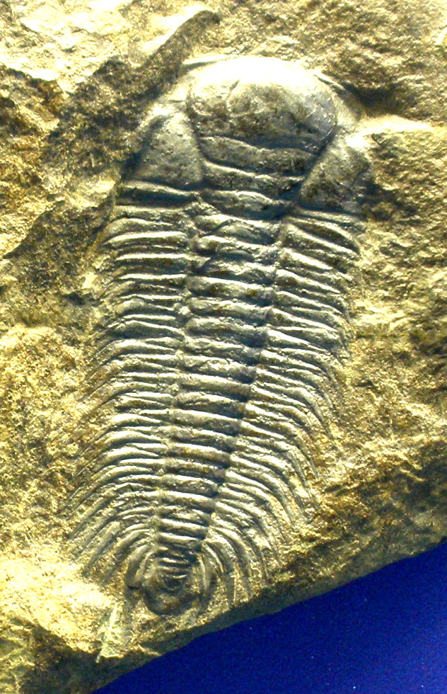 Took the photo at Museo di Storia Naturale di Milano